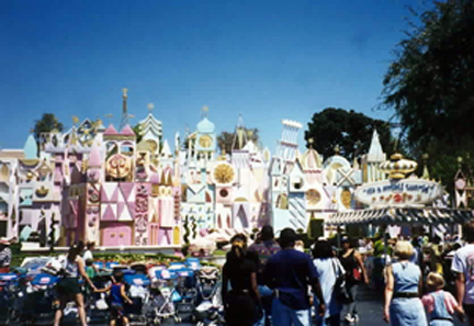 "it's a small world" 1995 color scheme in Fantasyland at Disneyland, Anaheim, California, U.S.A. Taken by Elf, Disneyland, CA 1995